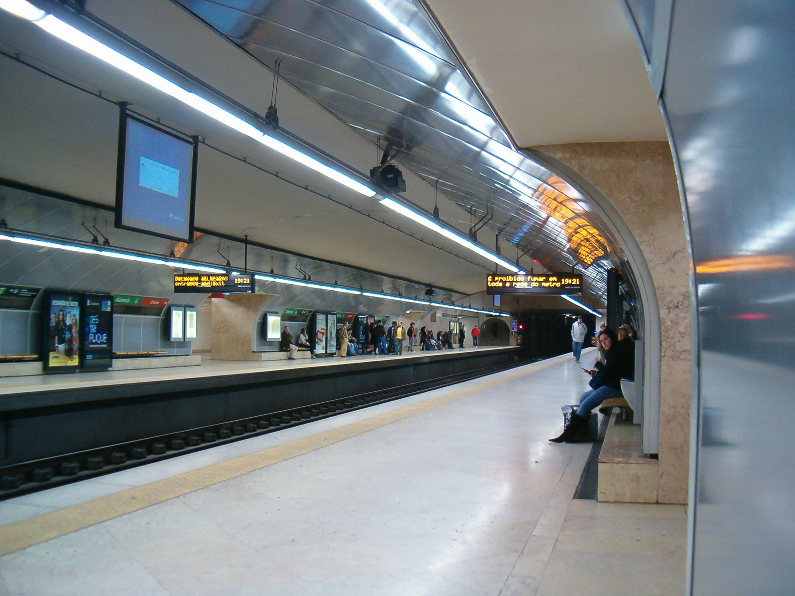 Metro station Alameda (Lisboa) - Platform of Green Line